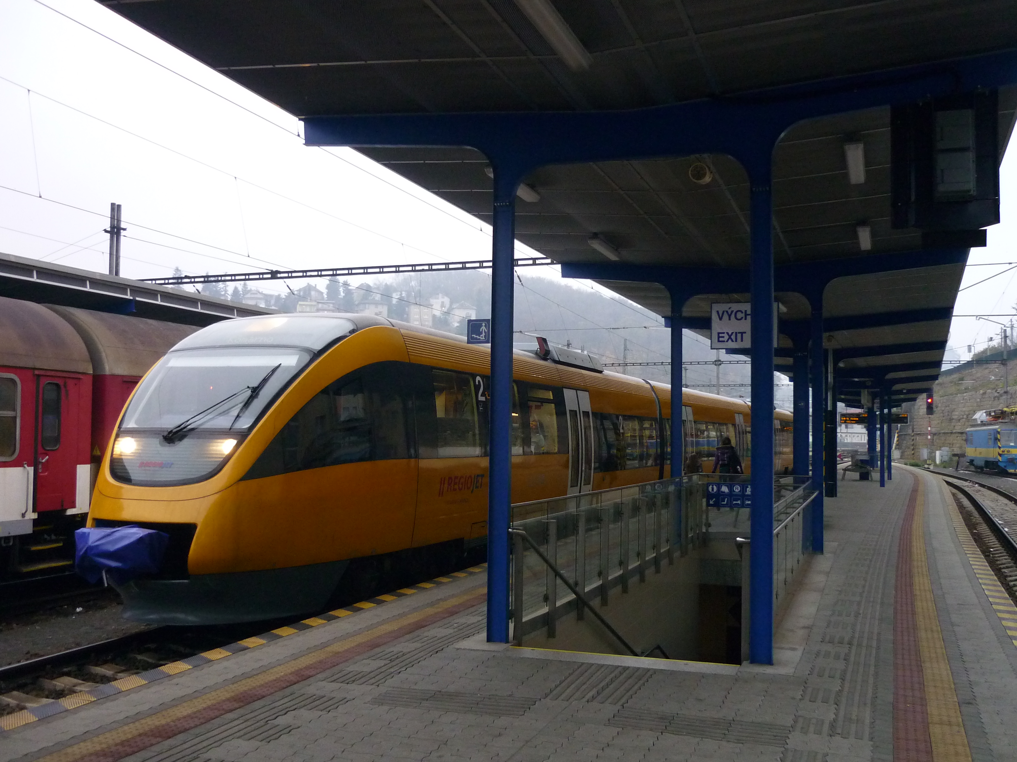 Train unit Bombardier Talent of company RegioJet in Bratislava